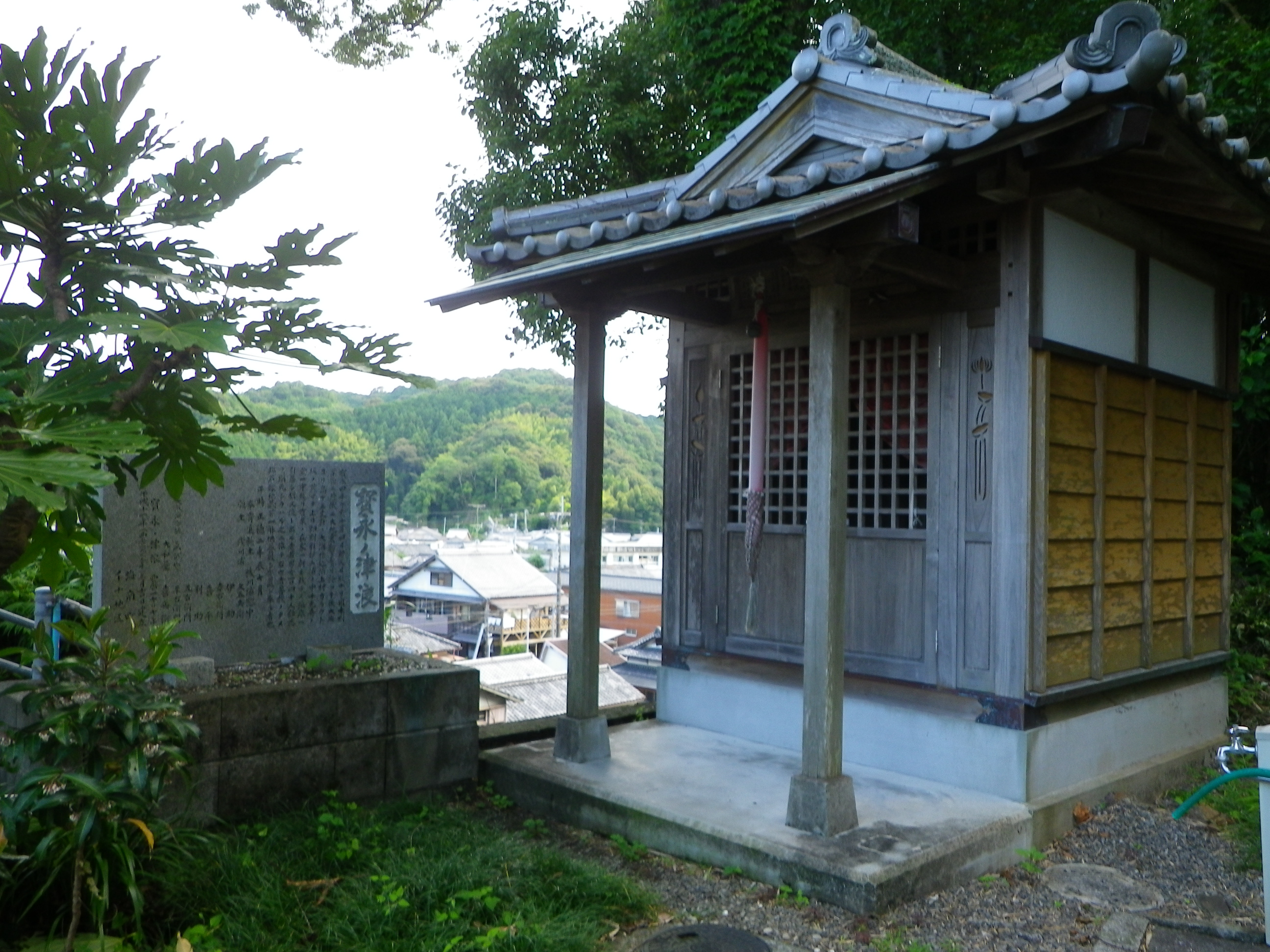 Asakawa kannnondo (hoei tsunami monument)